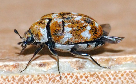 This image shows an Anthrenus verbasci - an only about 2 mm small beetle.